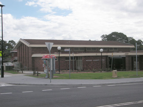 Marayong Community Centre, located opposite Marayong Station NSW